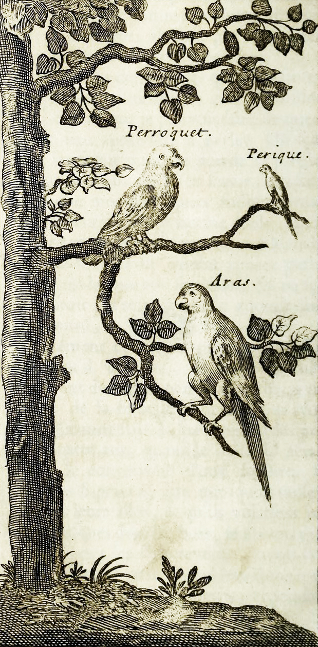 Labat's Conure (Aratinga labati, "Perique Papagay"), Guadeloupe Amazon (Amazona violacea, "Papagay"), Lesser Antillean Macaw (Ara guadeloupensis, "Aras"). All three species are extinct today. Artwork from 'Nouveau voyage aux iles d'Amérique' by Jean Baptiste Labat from the year 1722